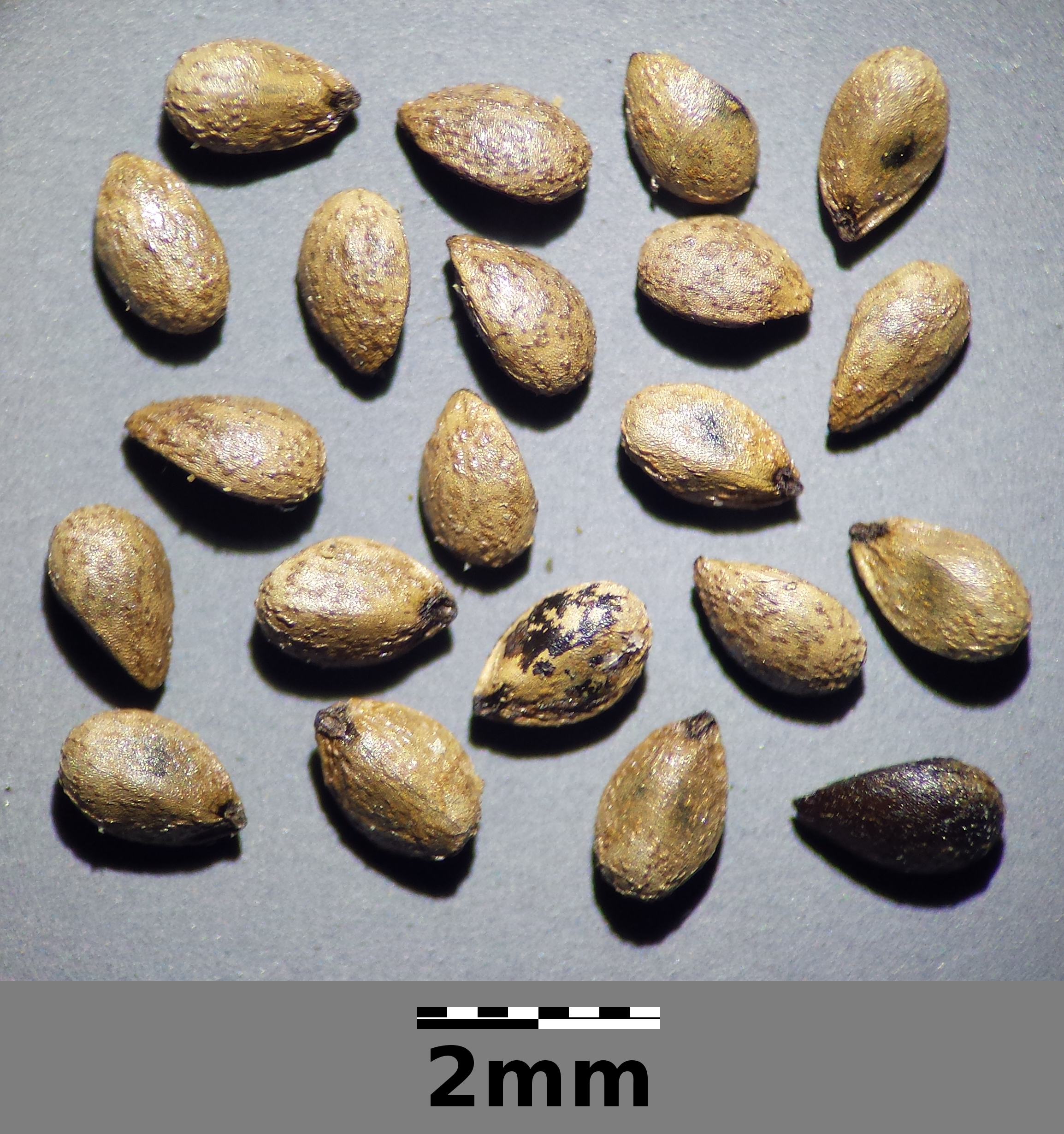 Fruits Taxon: Sideritis montana (sensu Fischer et al. EfÖLS 2008 ISBN 978-3-85474-187-9) Location: Haulesbergen, Ulrichskirchen-Schleinbach, district Mistelbach, Lower Austria - ca. 200 m a.s.l. Habitat: dry grassland on Loess